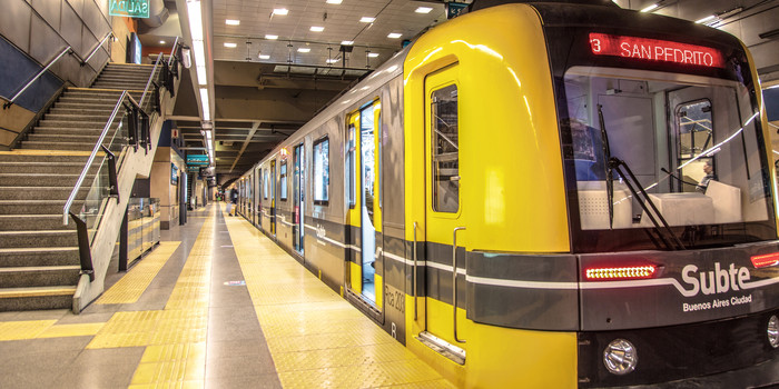 A 200 Series train at San José de Flores station.